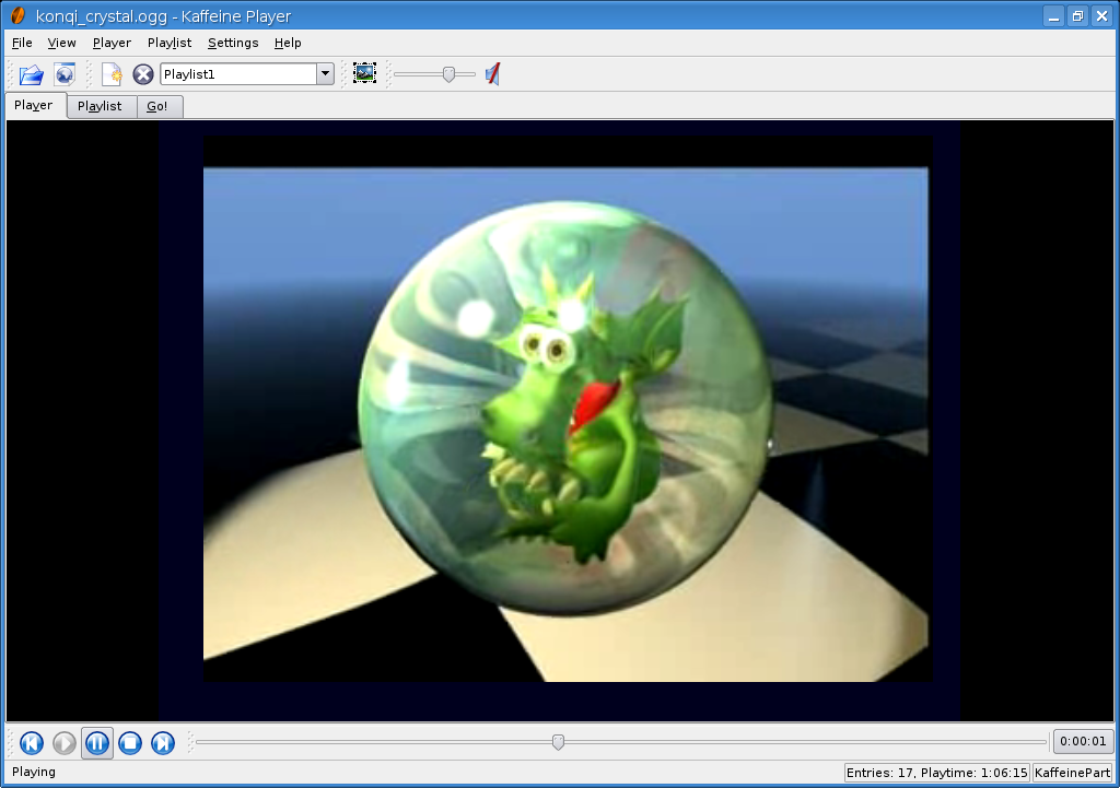 This is a screenshot of the GPL-licenced linux movie player software, Kaffeine 0.7.x